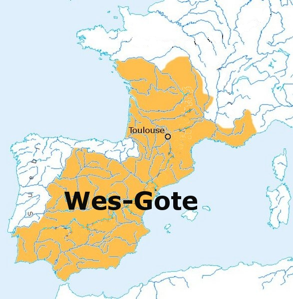 Extent of the Visigoth kingdom of Toulouse by 500.